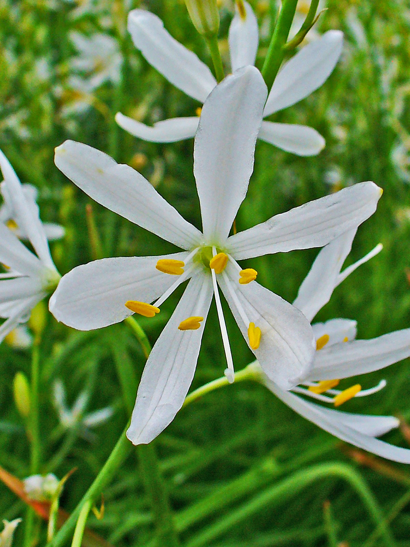 Anthericum liliago, Agavaceae, St. Bernard's Lily, flower; Botanical Garden KIT, Karlsruhe, Germany.